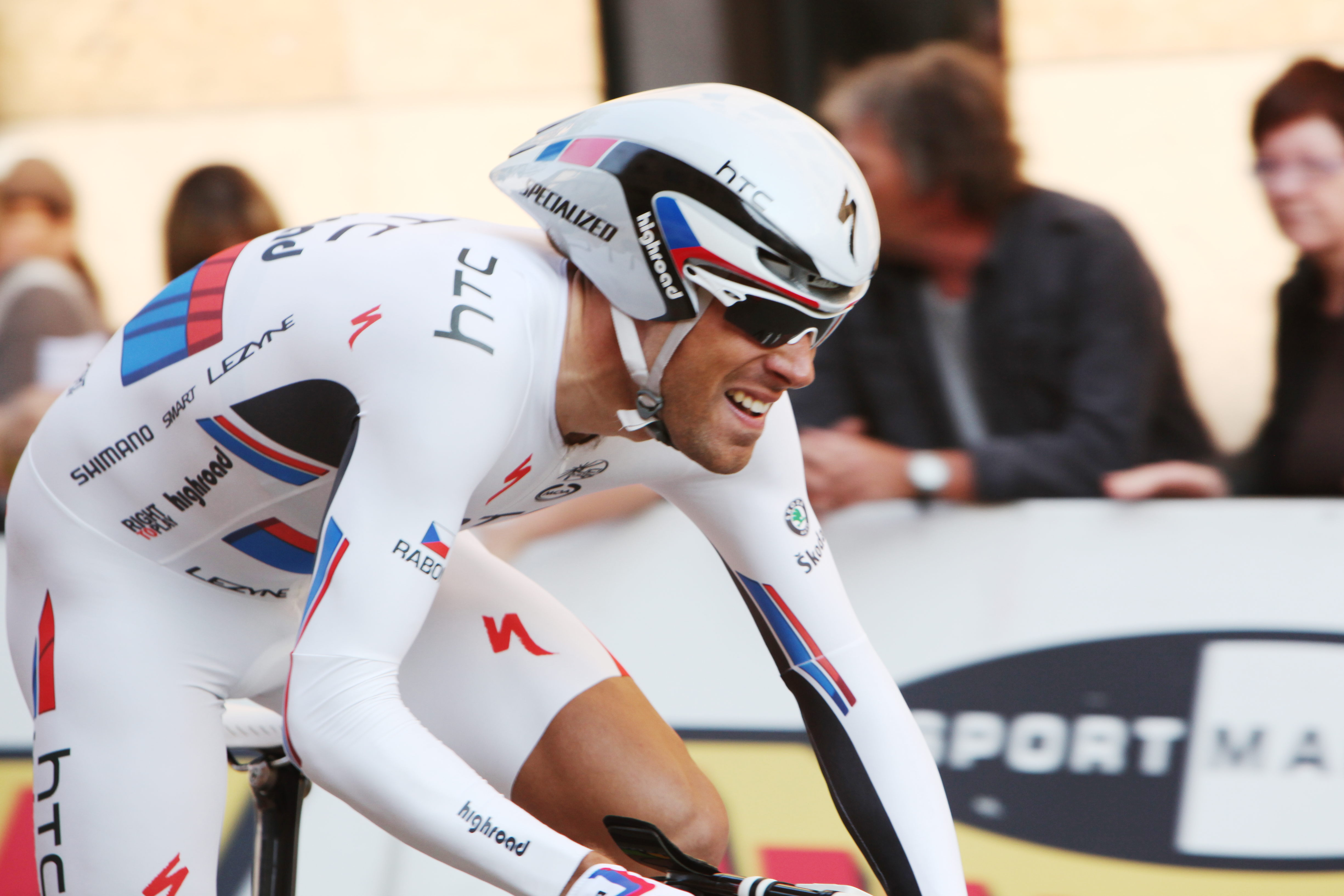 František Raboň at the prologue of the Tour de Romandie 2011